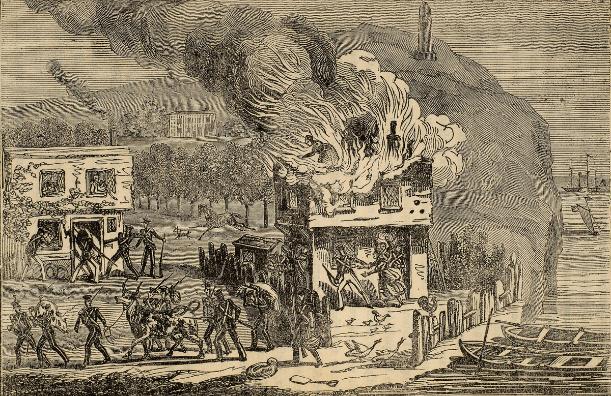 British troops from the auxiliary Legion burning Basque peasant houses (1836)